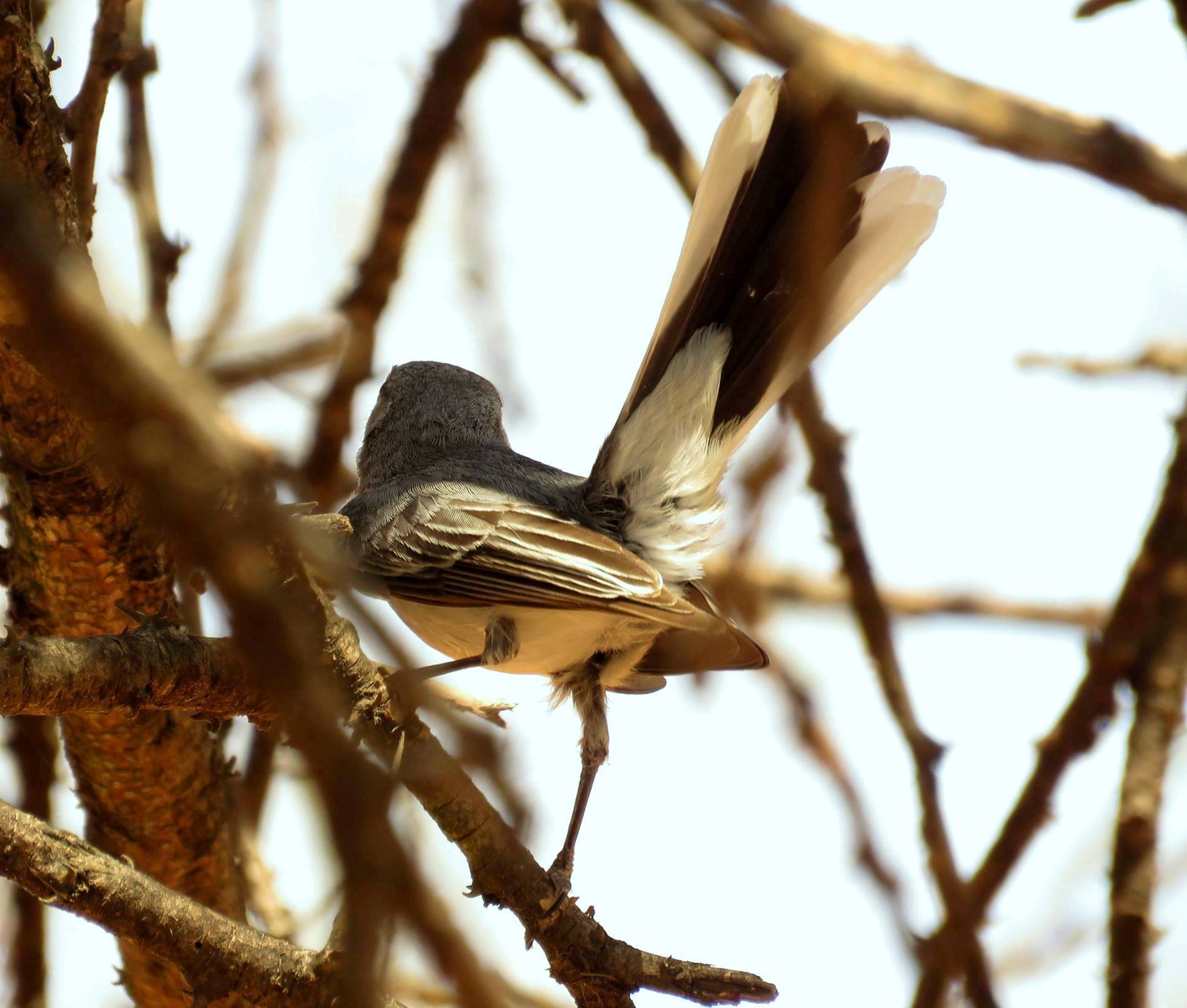 Fan-tailed flycatcher at Doorndraaidam, Limpopo, South Africa